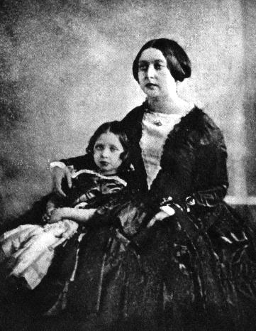 Probably the earliest photograph of Queen Victoria, with her eldest daughter